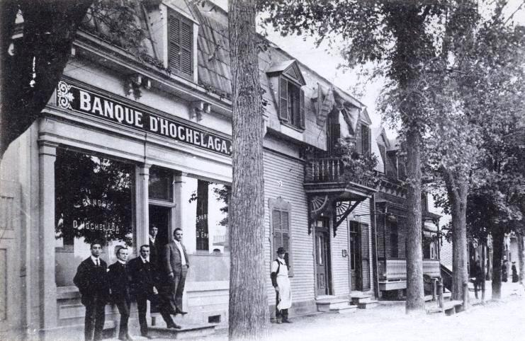 Print (photomechanical), Banque d'Hochelaga, St. Jerome, QC, about 1910, Pinsonneault, Ink on paper mounted on card - Collotype - 9 x 14.1 cm